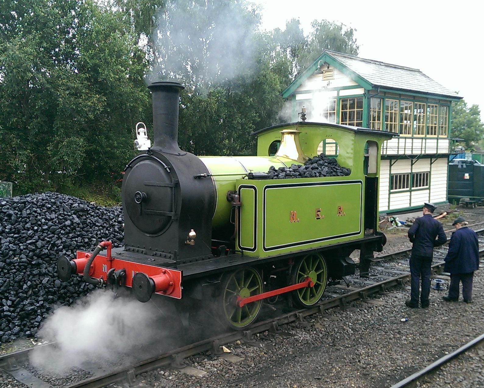 North Eastern Railway 0-4-0 1310 on the Mid-Norfolk Railway.